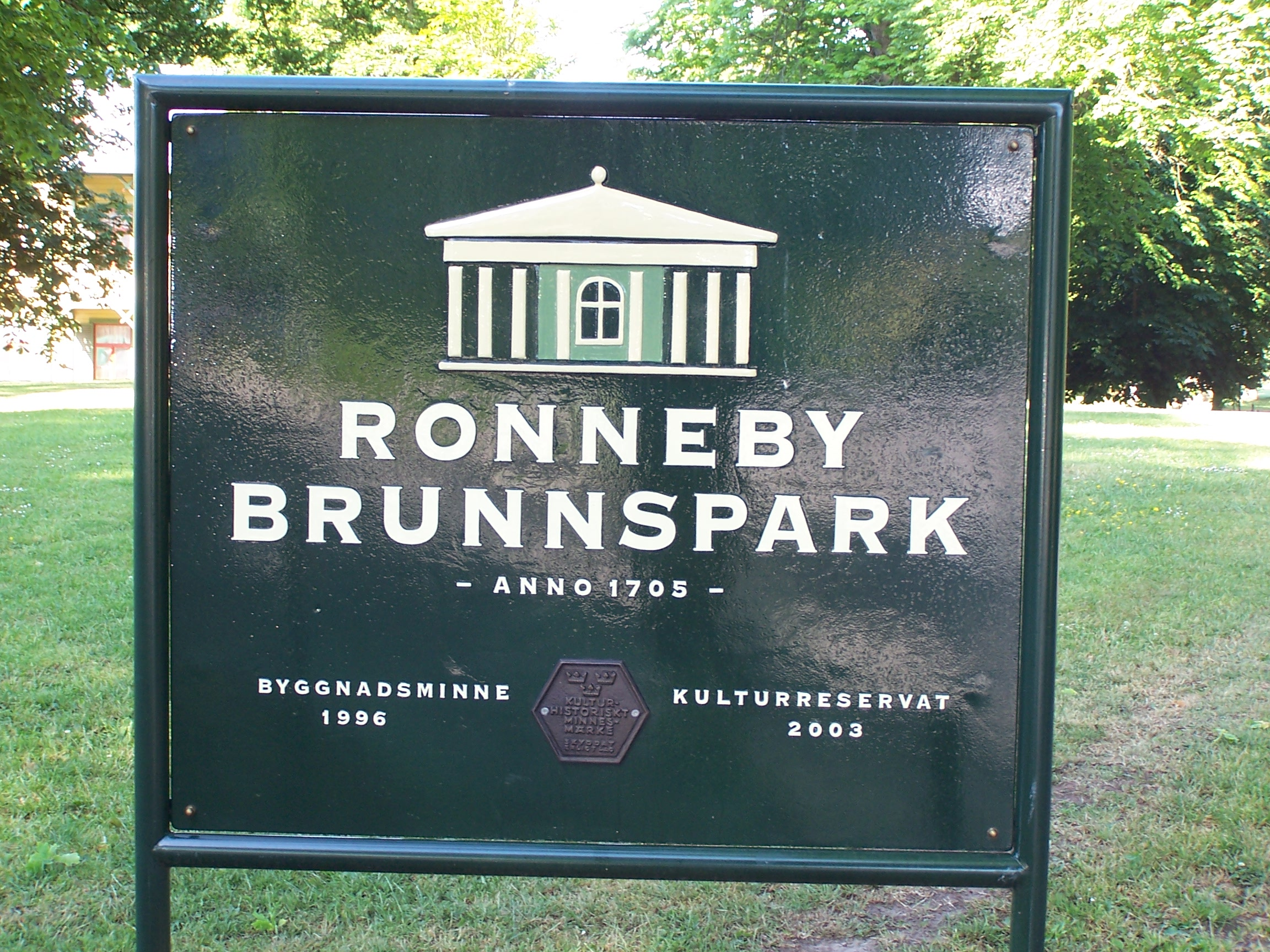 Sign "Ronneby Brunnspark"